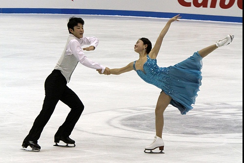 2010 NHK Trophy - Maia and Alex Shibutani